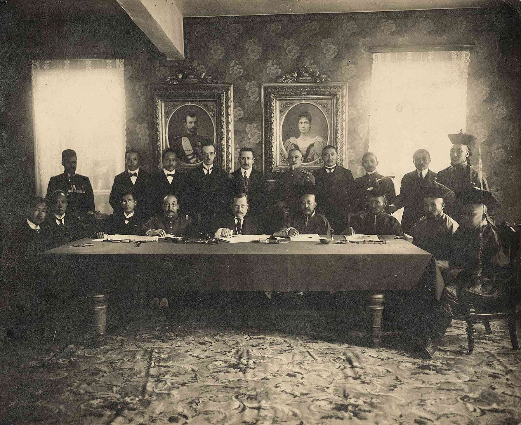 Deputies from China, Russia and Outer Mongolia signing Kyakhta Treaty. From left: Chen Lu (China), Bi Guifang (China), Alexander Miller (Russia), Silningdamding ? (Outer Mongolia), Jacdurjav ? (Outer Mongolia).